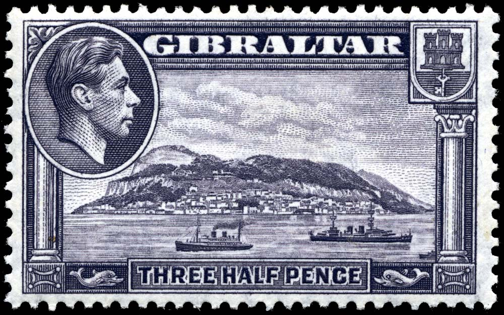 Gibraltar 1 1/2p stamp of 1943